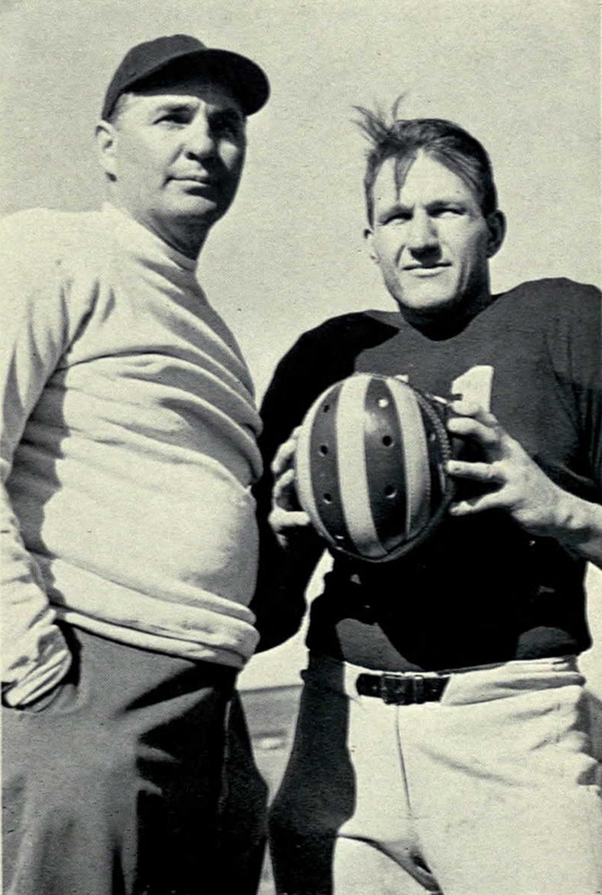 Photograph of Michigan head football coach Bennie Oosterbaan (left) and team captain Alvin Wistert of the 1949 Michigan Wolverines football team, from University of Michigan yearbook